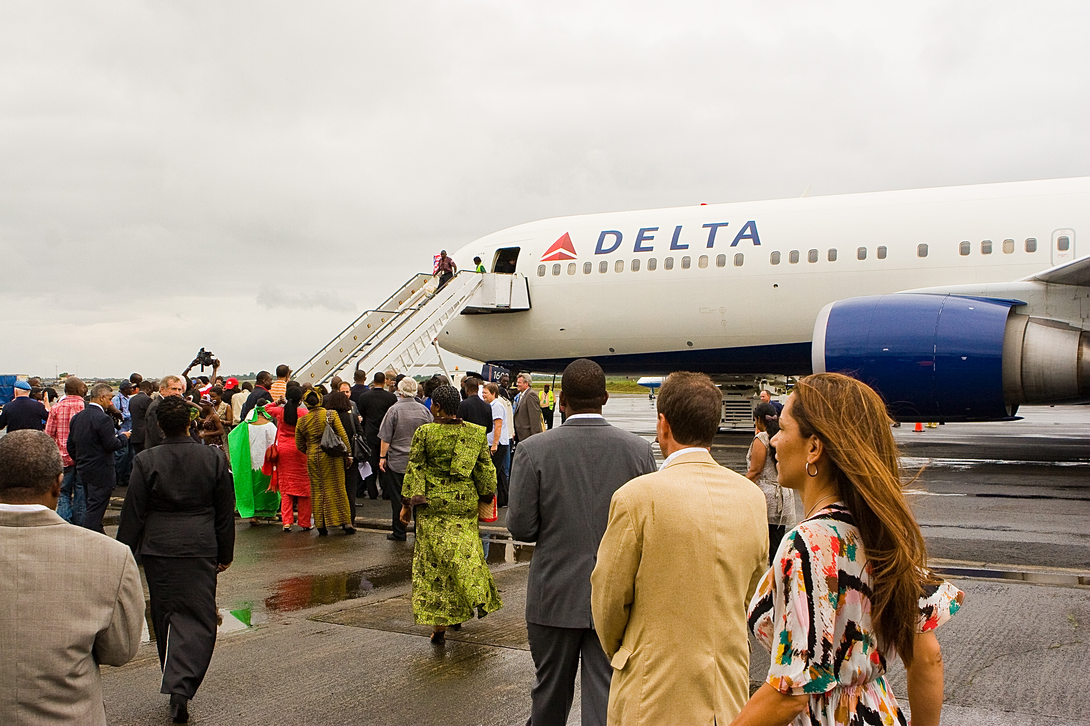 Celebrating the arrival of the first flight from US to Liberia in 20 years. The flight was operated from Atlanta to Monrovia by Delta Air Lines and utilised a Boeing 767-300ER (N1609)